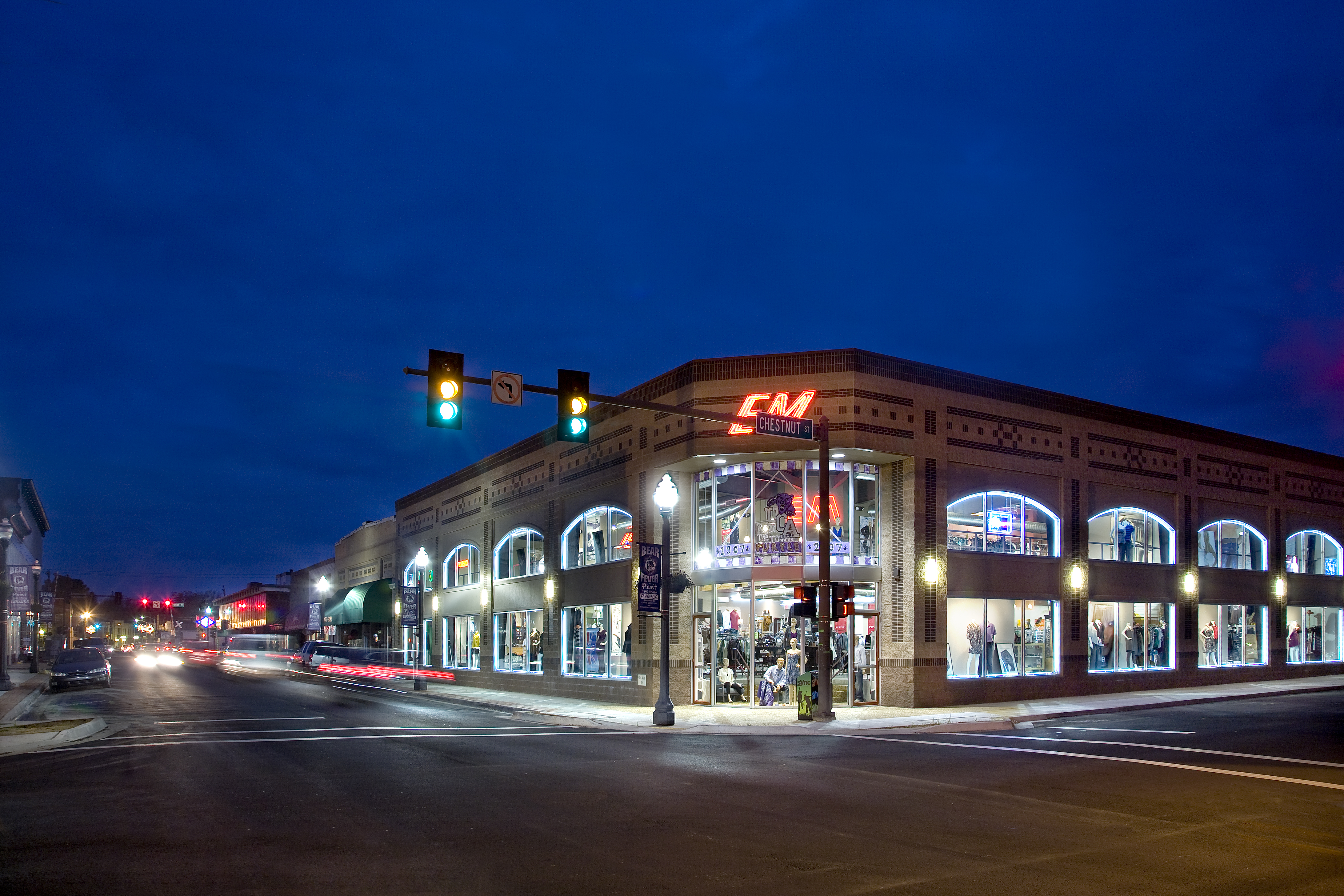 EM Jeans and retail in downtown Conway, AR at Oak and Chestnut Streets.